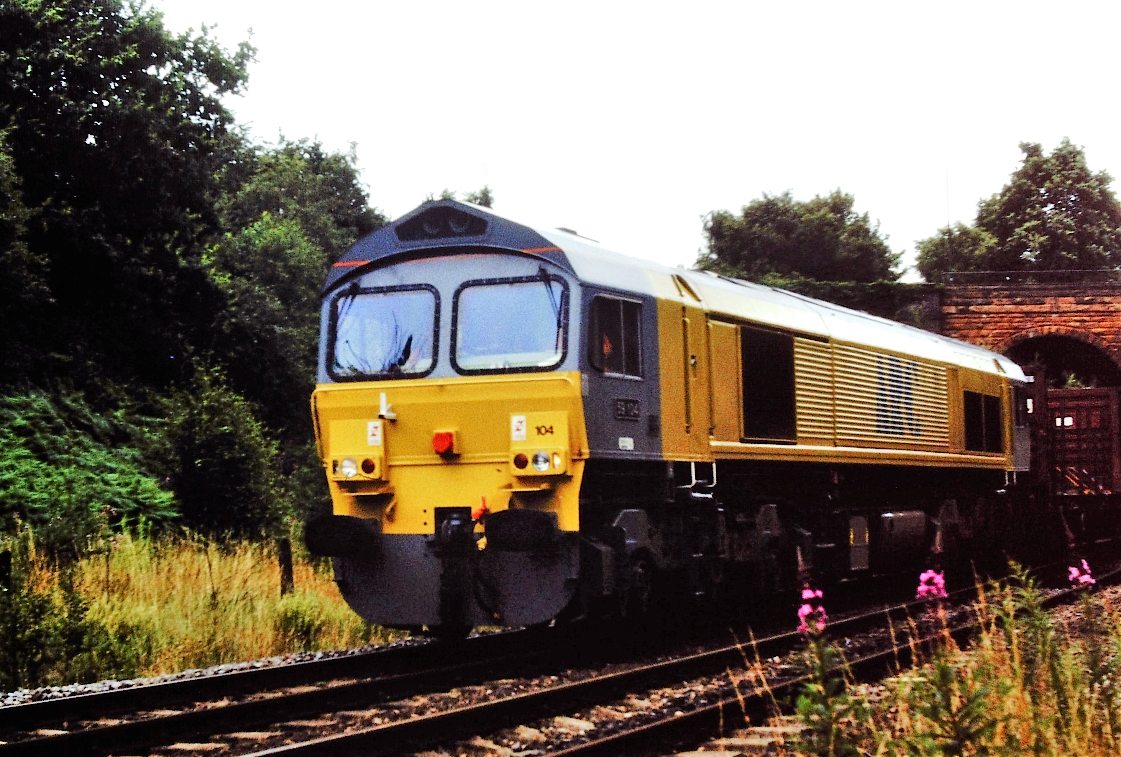 Class 59 59 104 Kenilworth August 1991